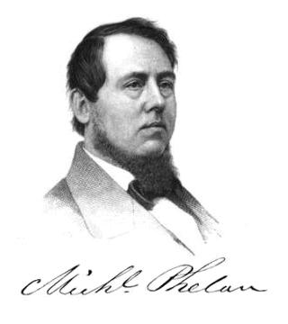 Photograph with signature of Michael Phelan (the "Father of American billiards") who died in 1871.